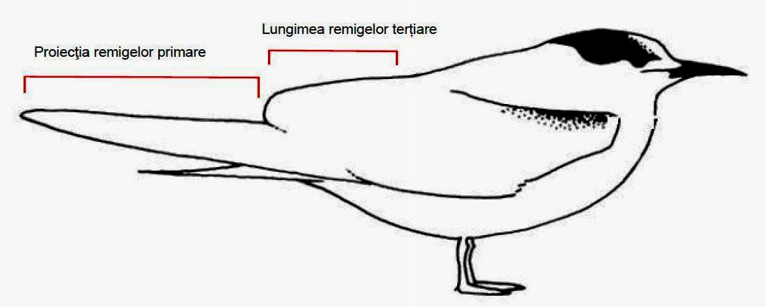 Primary projection